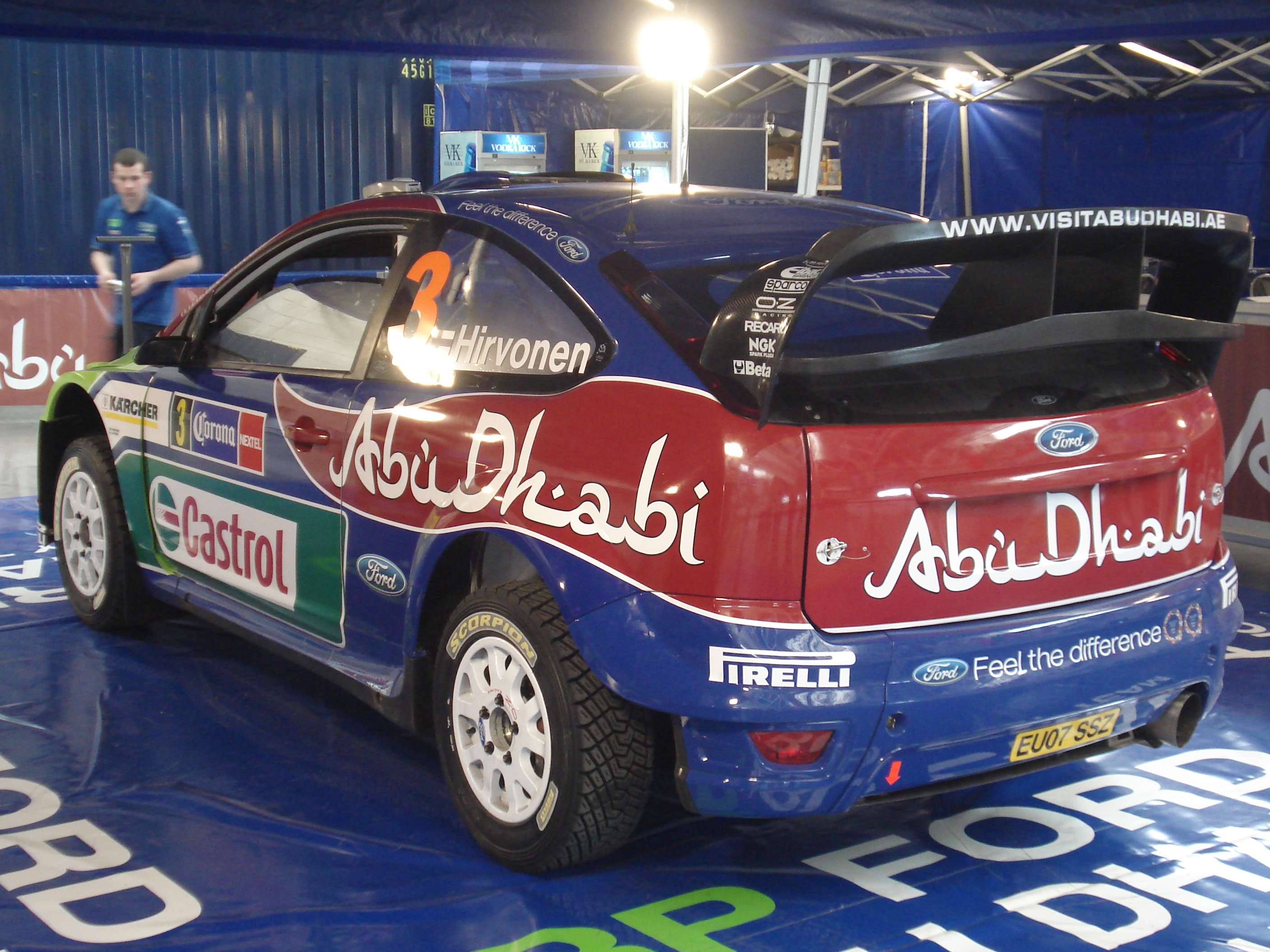 Mikko Hirvonen's Ford Focus prior to the start of the 2008 Rally Mexico at rally base in the Poliforum in Leon, Mexico.